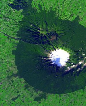 Credits: NASA/GSFC/MITI/ERSDAC/JAROS, and U.S./Japan ASTER Science Team